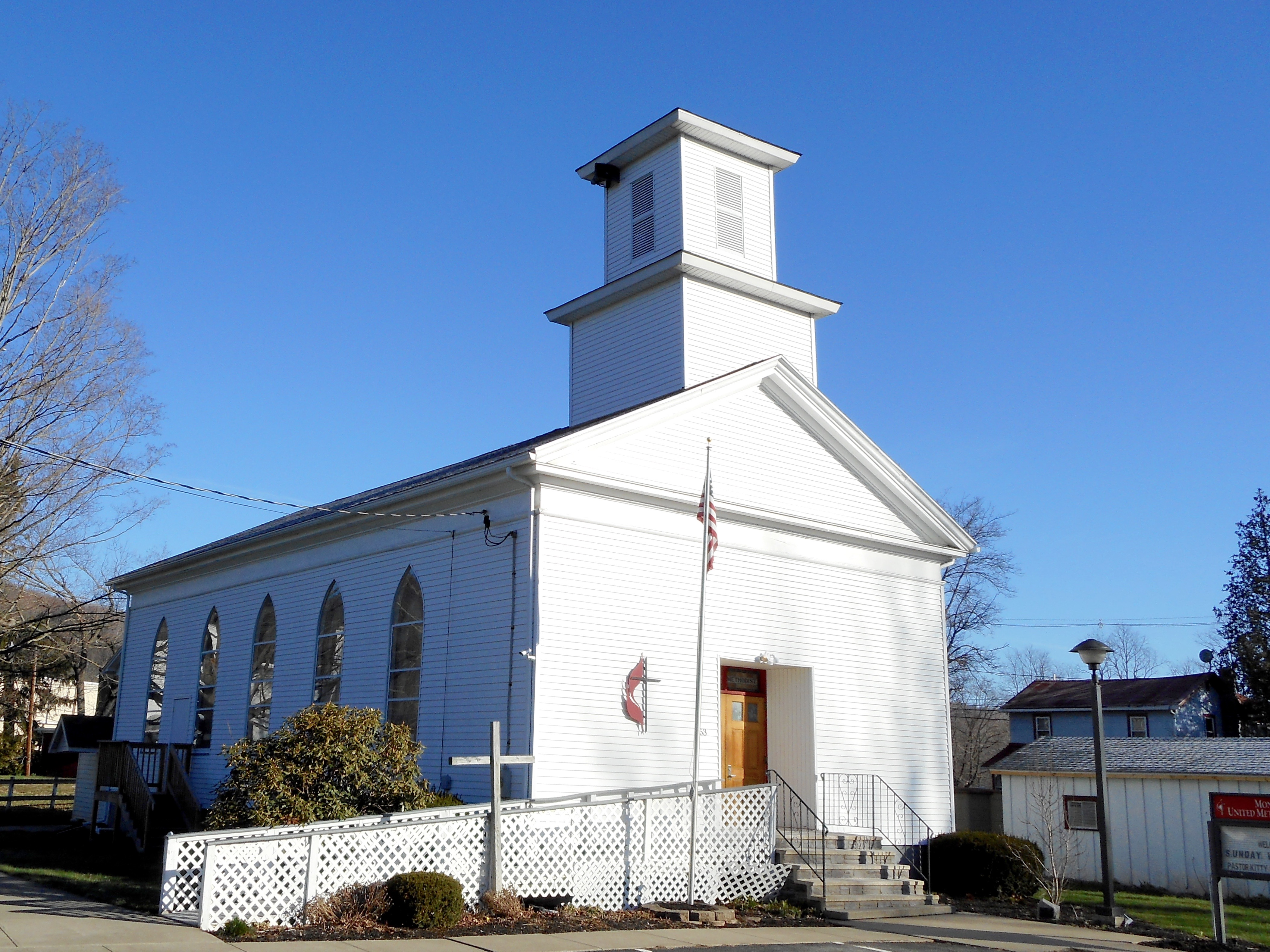 United Methodist Church in Monroe, Bradford County, Pennsylvania. The local write Monroeton instead of Monroe on signs and this churches official name includes Monroeton